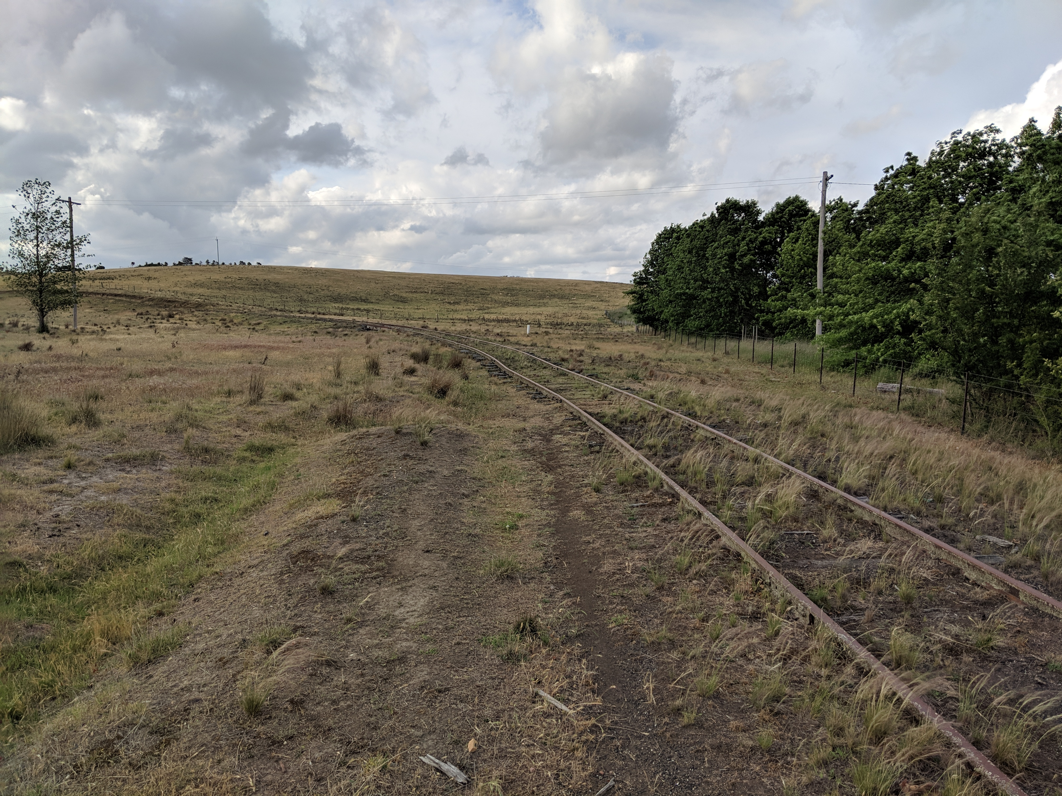 Abandoned railway in Woodhouselee, New South Wales